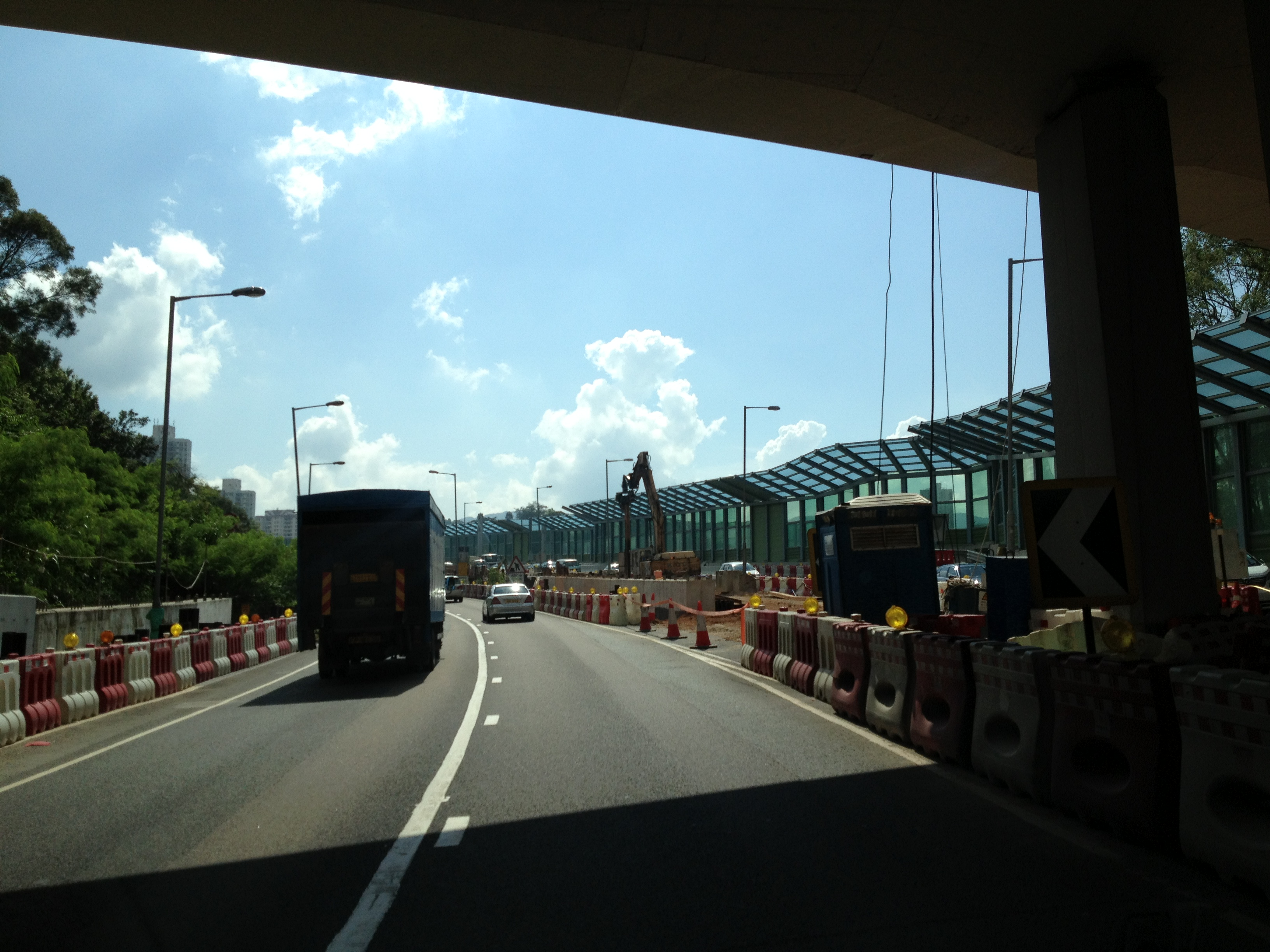 Photograph of Tolo Highway in June 2013